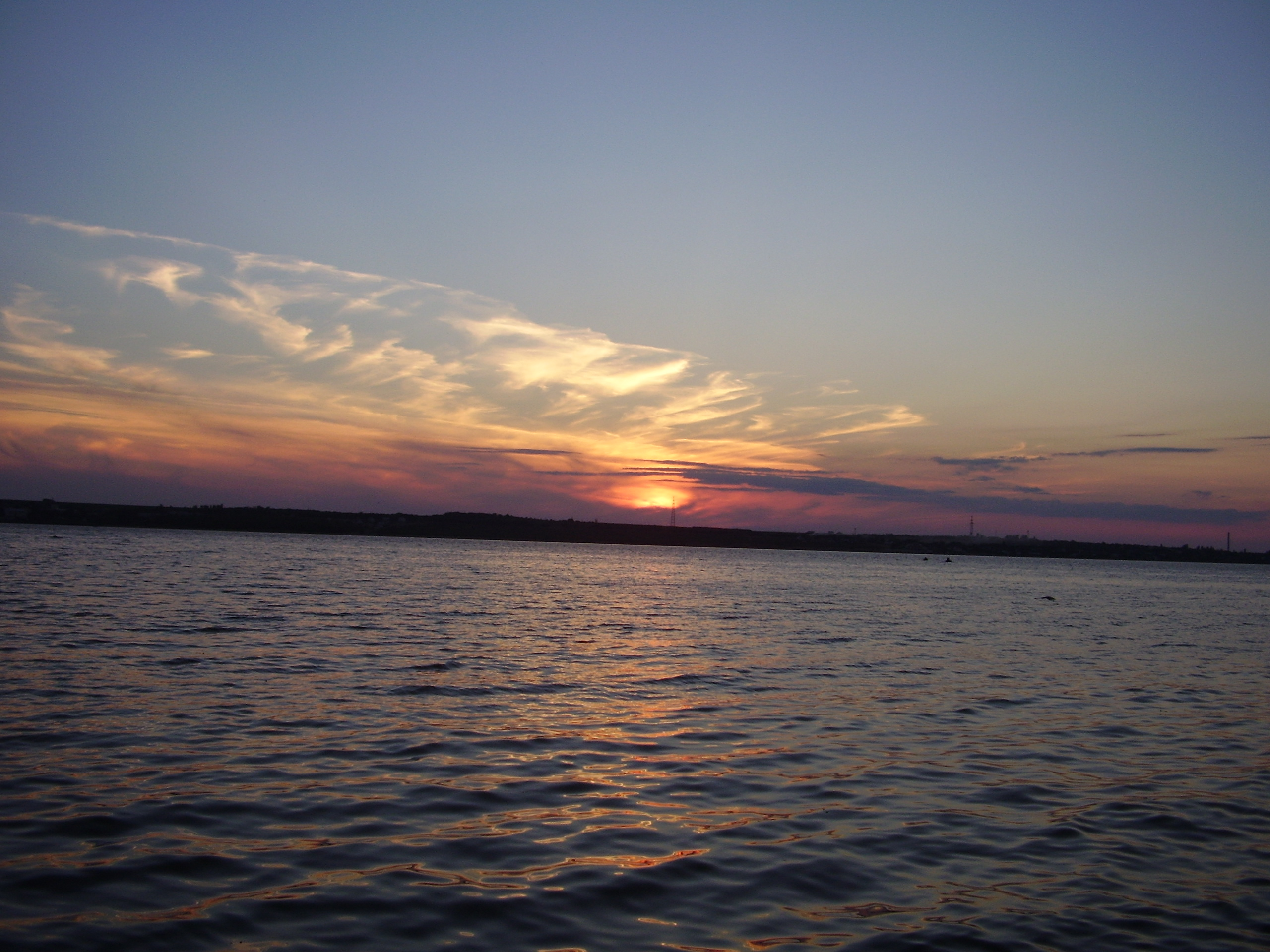 Mykolaiv. View from Shyroka Balka to Mala Koreniha